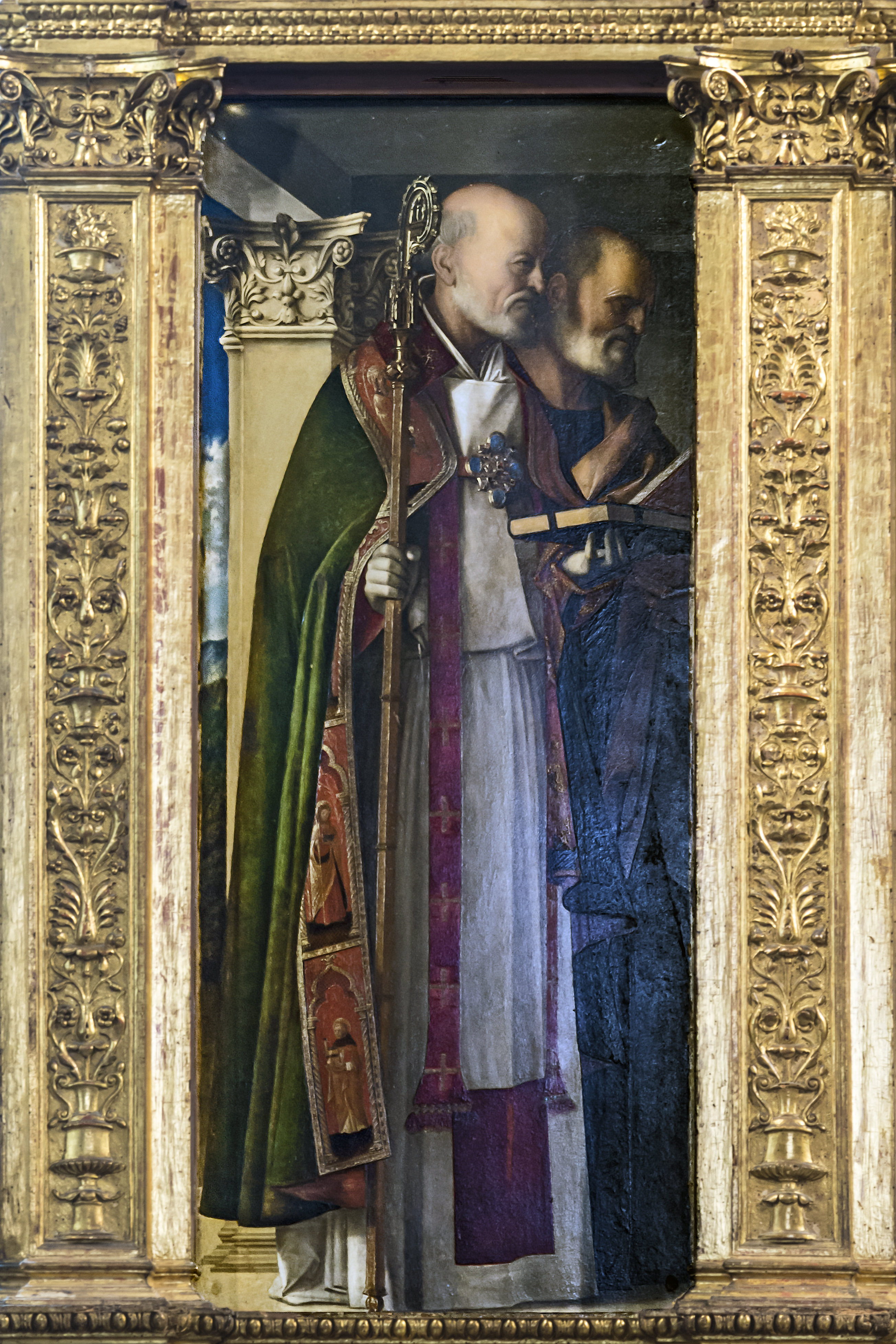 Santa Maria Gloriosa dei Frari, Sacristy - Triptych Madonna and Child ;Saint Nicholas, and Saint Peter by Giovanni Bellini. Oil on wood panels 1488.